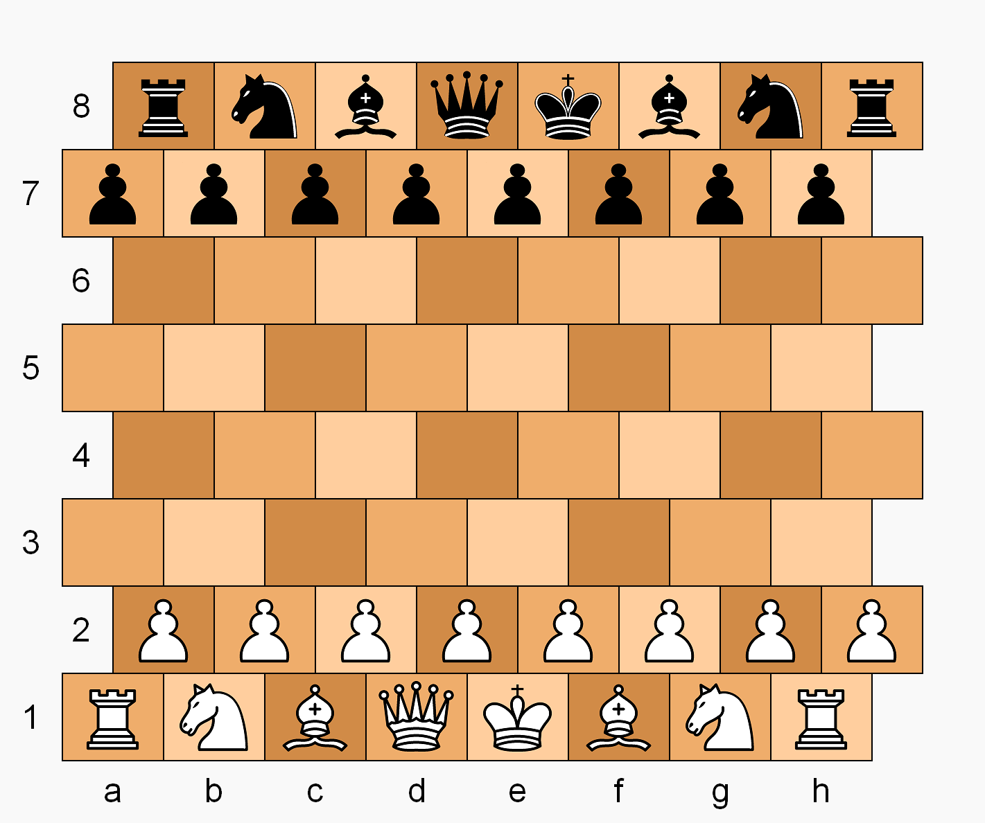 Alternate framing for non-lede use. Uses ProjChess colors and chess icons by David Benbennick (User:Dbenbenn). Done in MS PAINT.